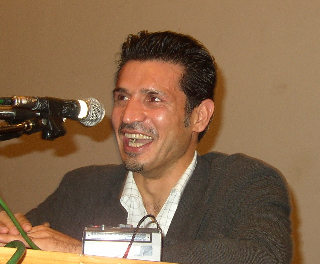 Cropped version of Image:Ali-Daei.JPG, taken by Hessam Armandehi